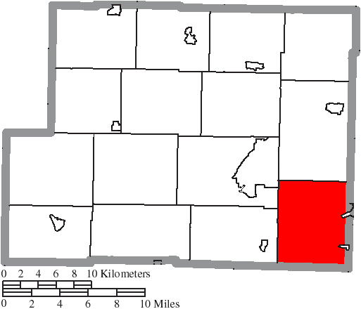 Map of the municipal and township boundaries of Harrison County, Ohio, United States, as of the 2000 census, with the location of Short Creek Township highlighted. Township borders are shown only in unincorporated areas in order to differentiate incorporated and unincorporated areas more clearly.